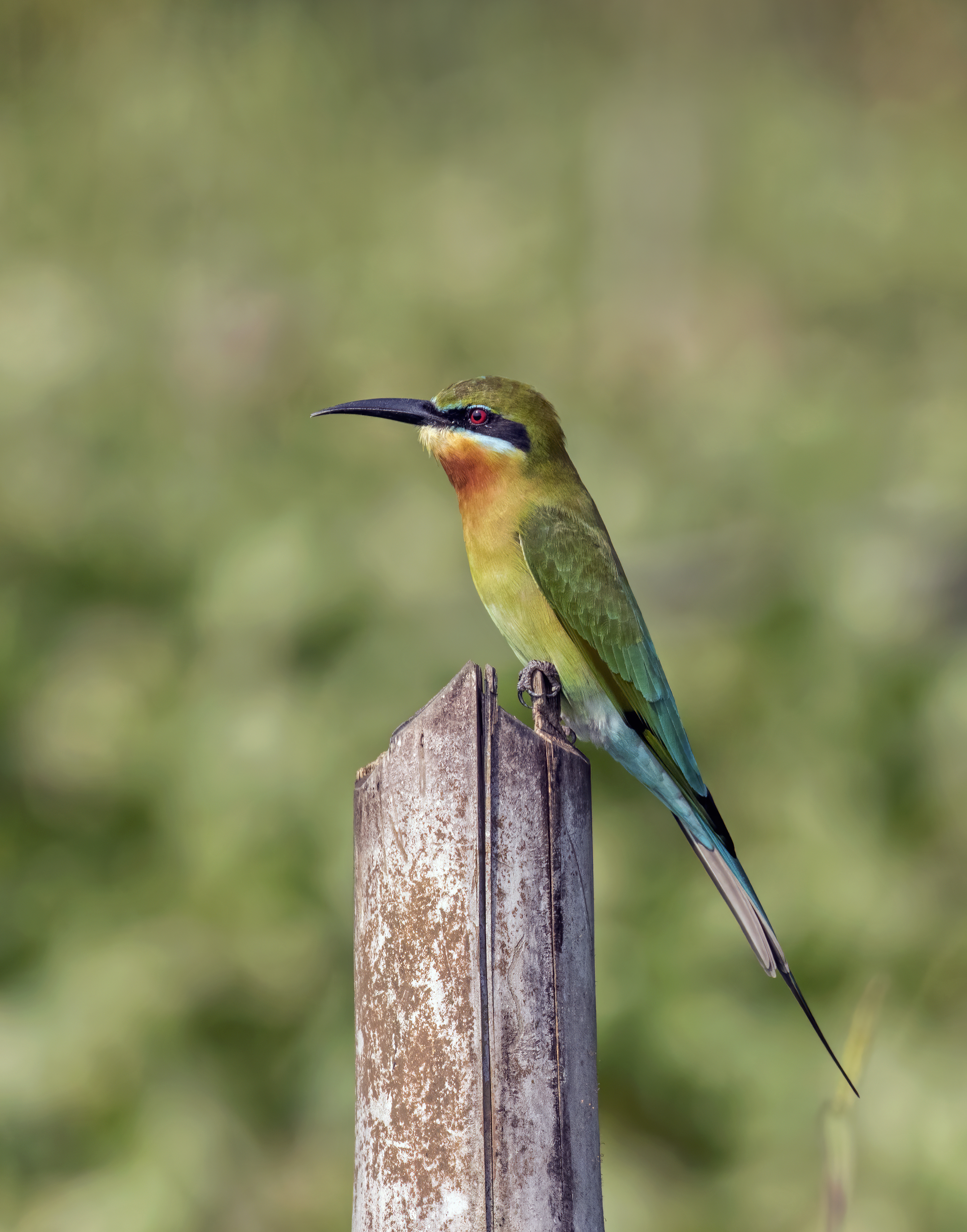 Blue-tailed bee-eater (Merops philippinus), Vembanad Lake, Kerala, India